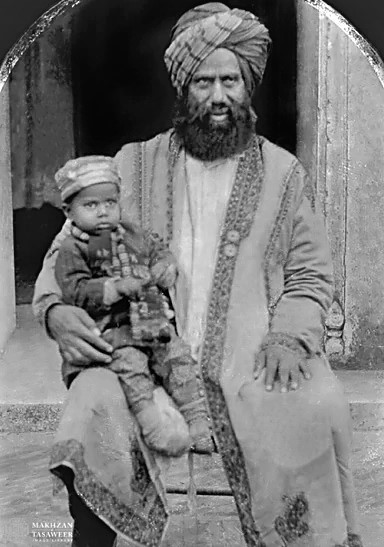 Al-Hajj Maulana Nur-ud-Din Khalifatul Masih I with his son, Abdul Hayy